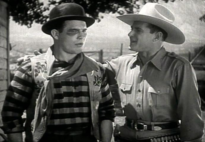 Nat Pendleton (left) and Ken Maynard in Hell Fire Austin - cropped screenshot (original image - damaged : see source - modified).